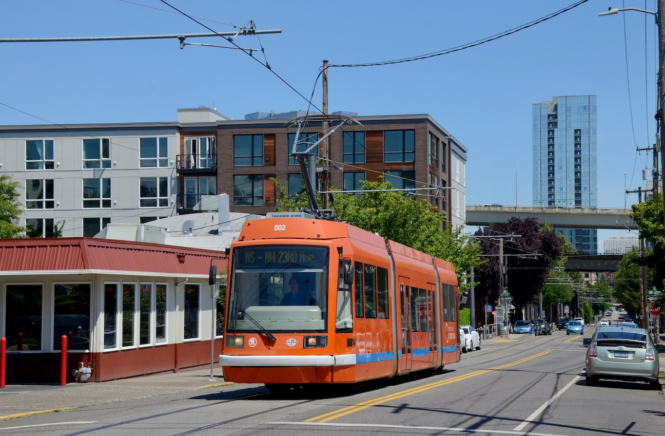 Car 002 of the Portland Streetcar system, a 2001 Škoda/Inekon 10T, westbound on NW Northrup Street at 19th Avenue, near the end of a northbound trip on the NS Line. The skyscraper in the righthand background, several blocks away, is Cosmopolitan on the Park, built in 2014–2016. Car 002 was one of the five streetcars that opened the Portland Streetcar system in 2001, and this location was along the original portion of that first line (which was later extended, at its opposite end). The car has logos on its front end for both of the manufacturers involved in its construction, Škoda and Inekon, whose partnership broke up a short time after the Portland system's opening.